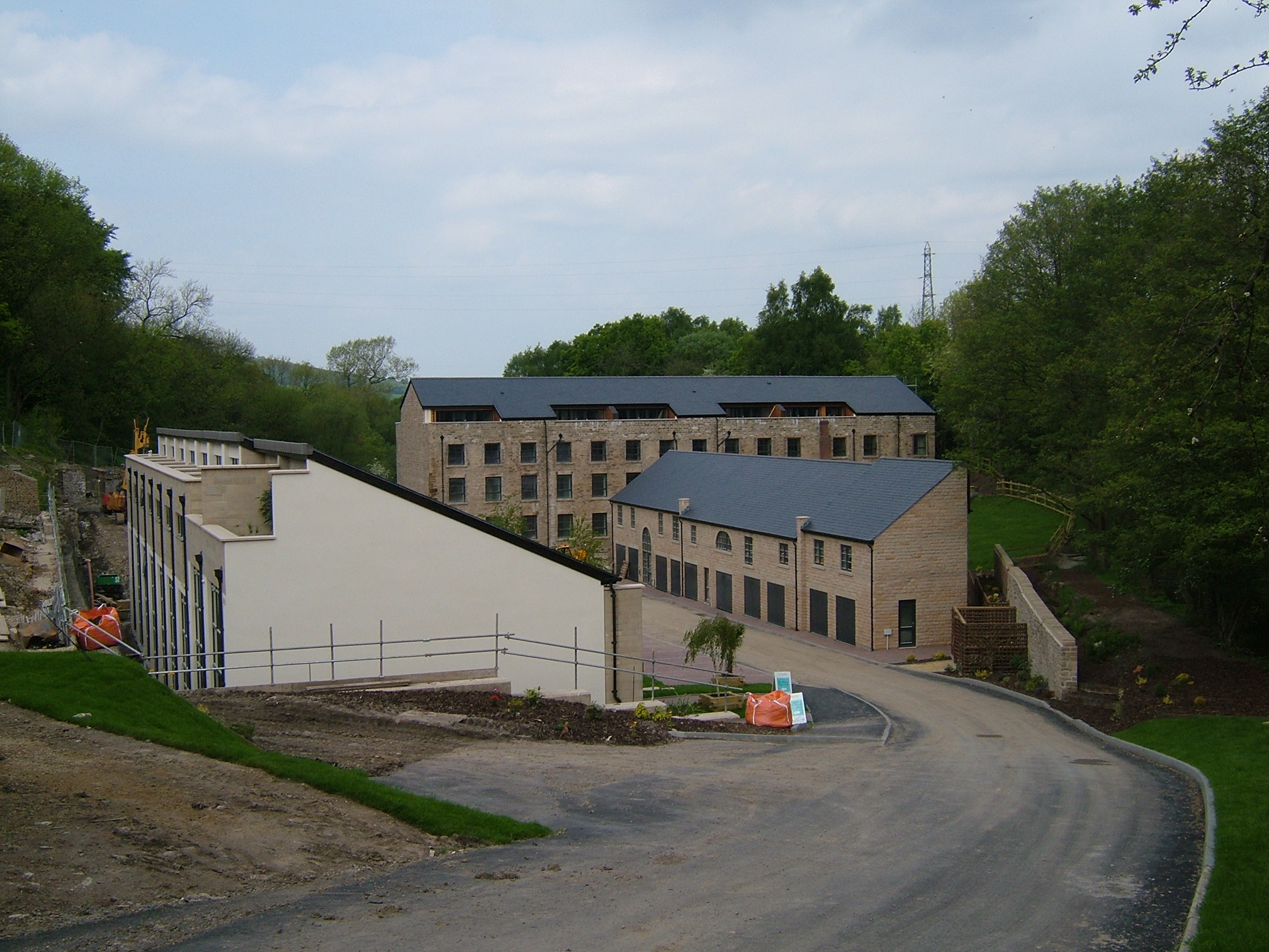 Chisworth is a hamlet near Glossop in Derbyshire. Kinderlee Mill with new build.